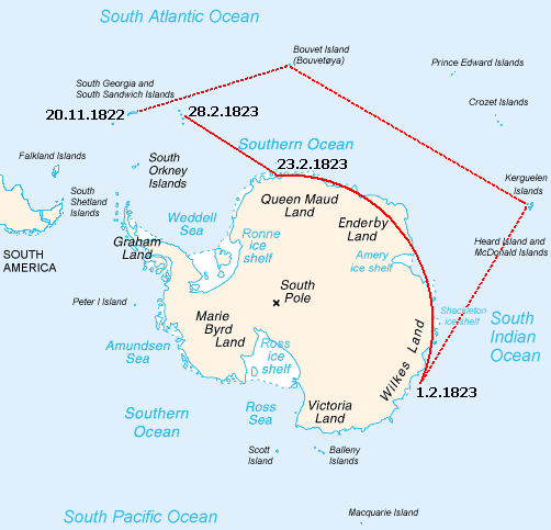 Map of the reported sea voyage of Benjamin Morrell near Antarctica in 1822-23. Positions and dates taken from Morrell's book: Morrell, Benjamin (1832). A Narrative of Four Voyages...etc. New York: J & J Harper. Pages 58–66